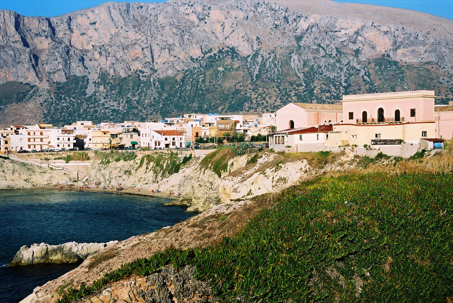 Terrasini Panoramic view of the seaside